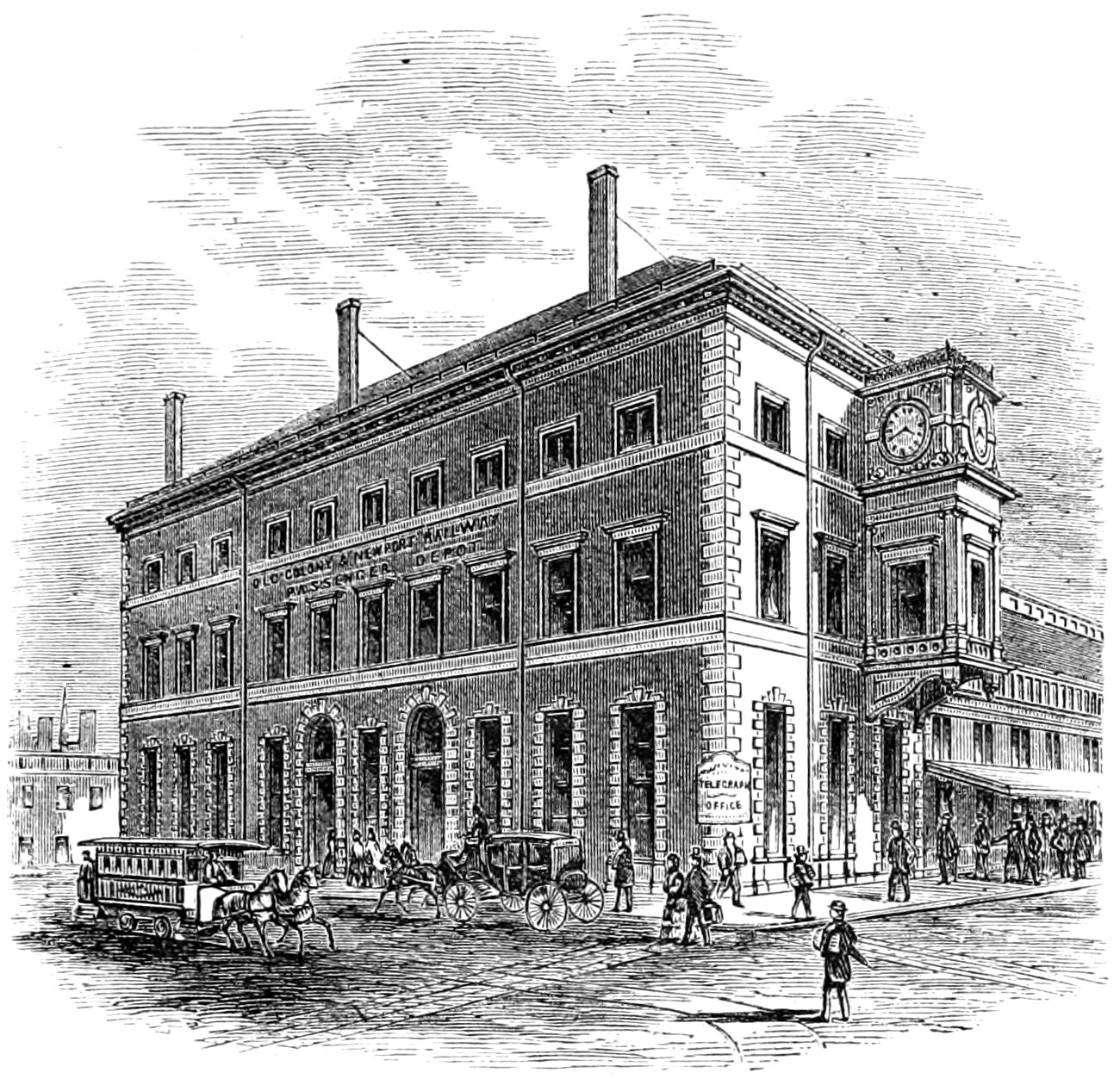 A woodcutting of the Old Colony Railroad terminal in Boston, published in 1875